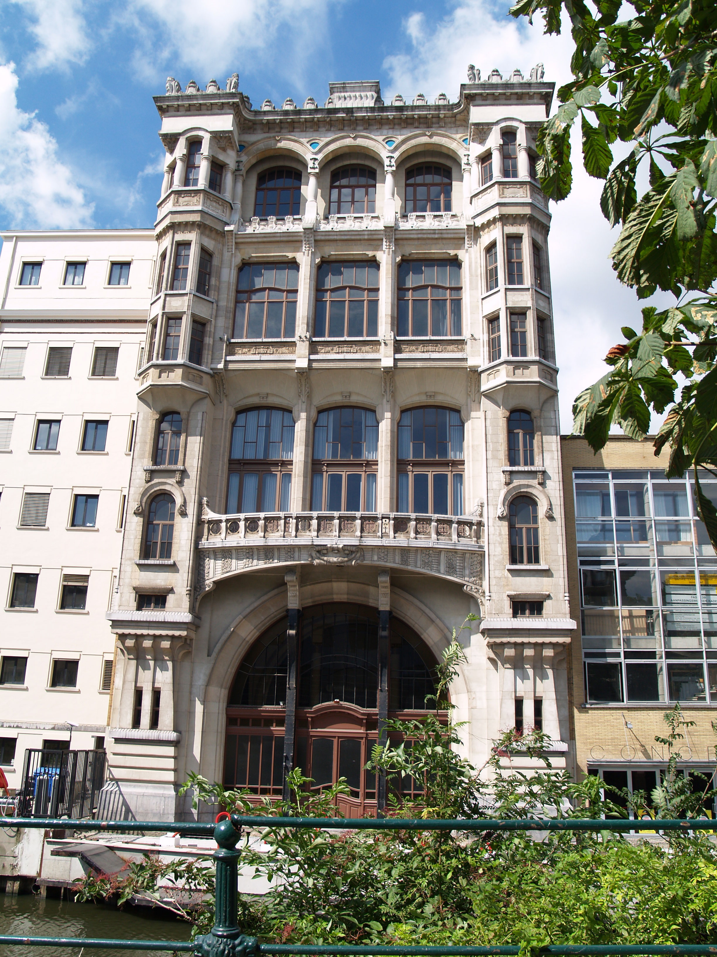 Achtergevel van socialistisch feestcomplex "Vooruit" in Gent. Gebouwd tussen 1911 en 1914 in eclectische stijl. Architect is Ferdinand Dierkens. Rear side of socialist complex "Vooruit" in Ghent. Built between 1911 and 1914 in eclectic style. The architect is Ferdinand Dierkens.